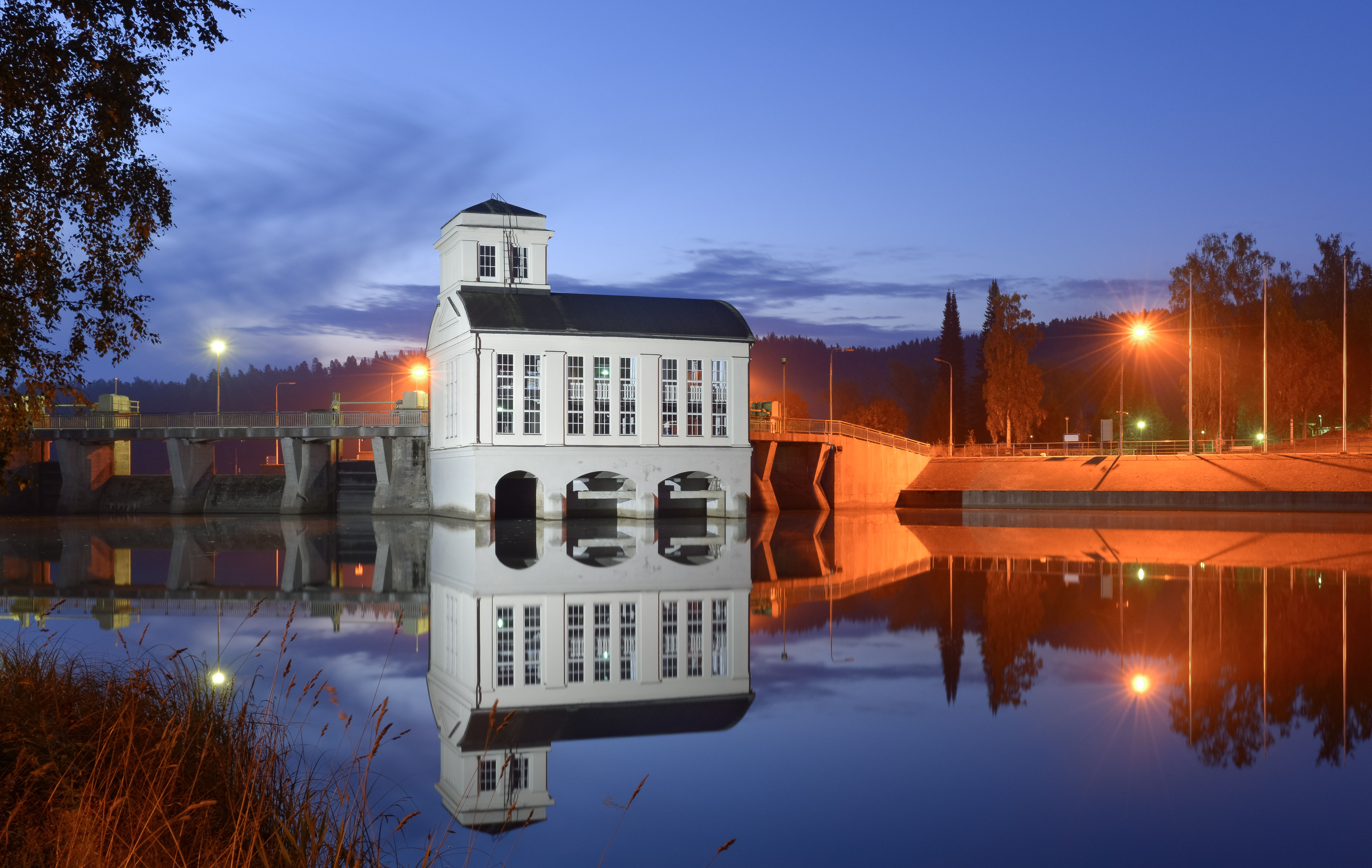 Vaajakoski old power plant